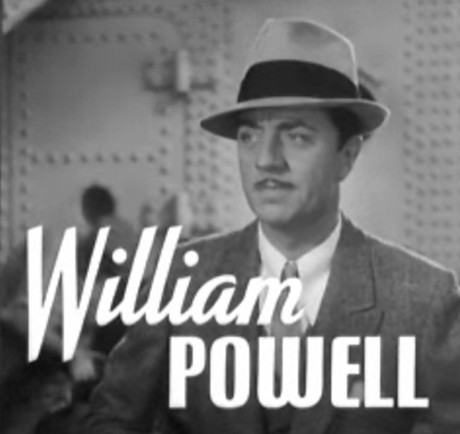 Cropped screenshot of William Powell from the trailer for the film Libeled Lady (1936).